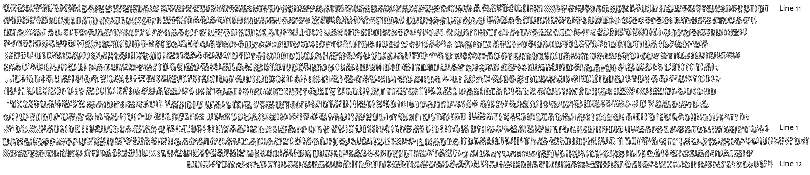 Barthel's tracing of rongorongo text I. Lines ordered per Barthel and Horley (2011)